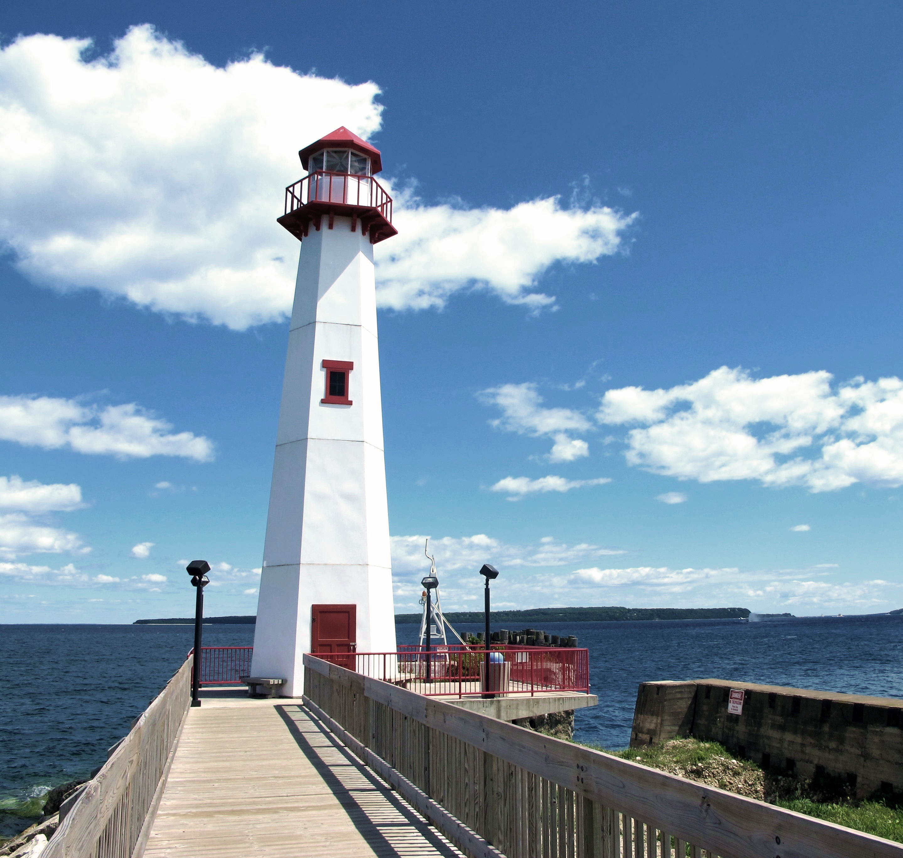 The Wawatam light at the Straits of Mackinac in St. Ignace Michigan